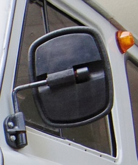 UAZ 452 grey with old mirrors (pre 2000s)